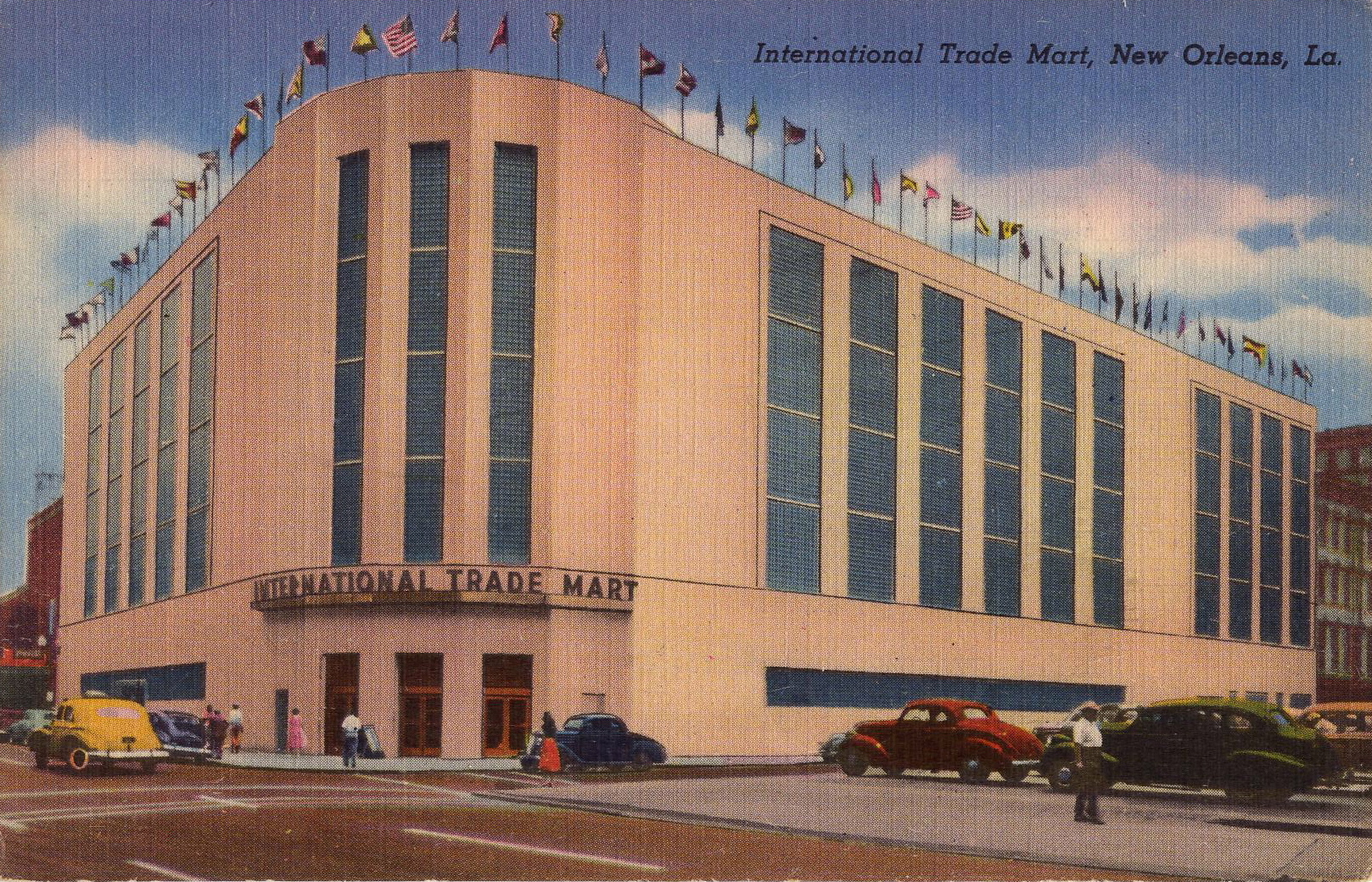 Postcard of New Orleans. The old Art Deco "International Trade Mart" building. This is a view of the entrance at the downtown river corner of Camp Street and Common Street. Since demolished.